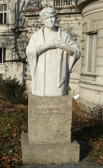 Monument of Hansi Niese in Wien Volkstheater.